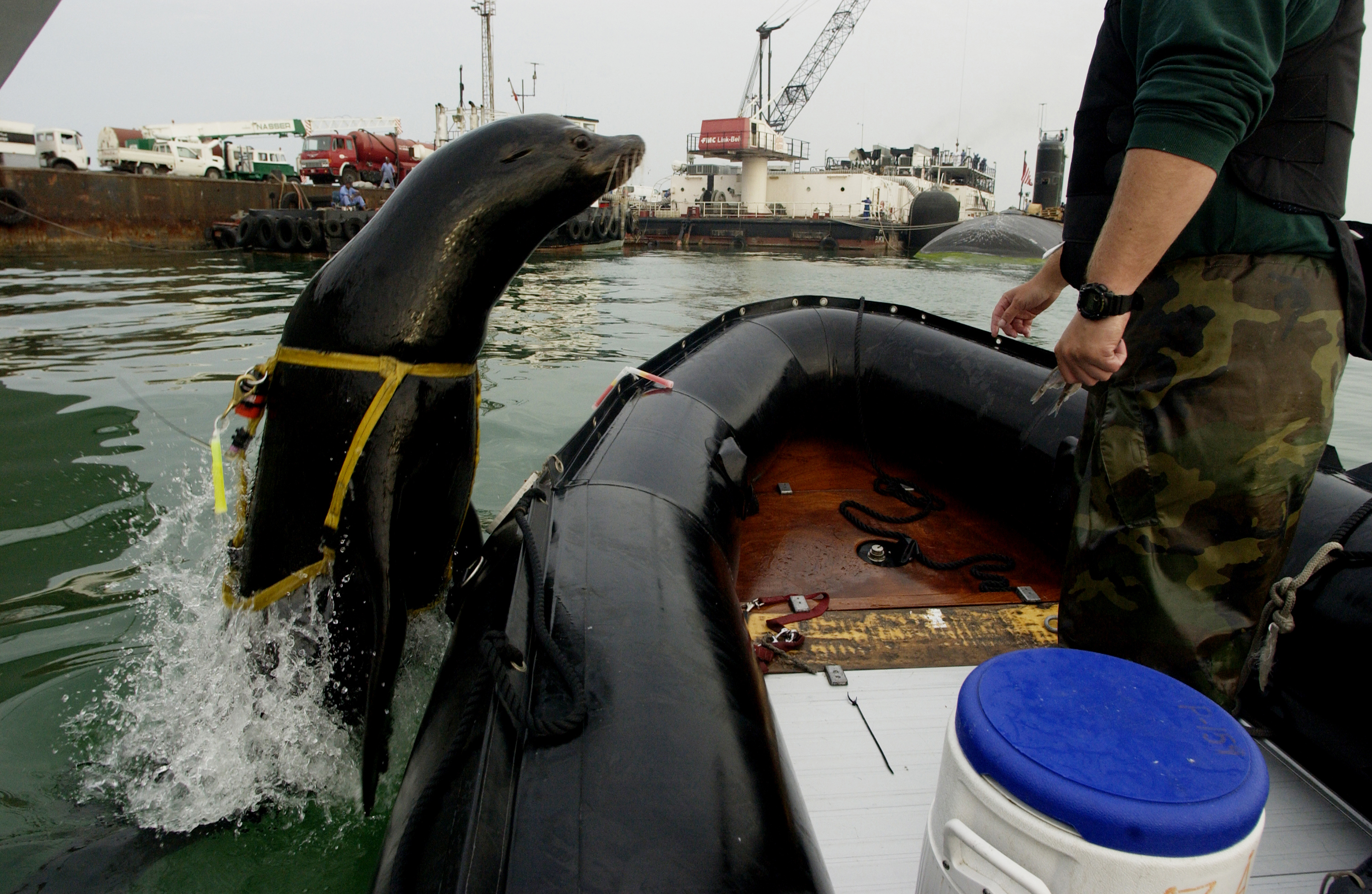 Bahrain (Feb. 13, 2003) -- Zak, a 375-pound California sea lion, leaps back into the boat after a harbor-patrol training mission. Zak is participating in the Space and Naval Warfare Systems Center’s Shallow Water Intruder Detection System (SWIDS) program. The seal has been trained to locate swimmers and other smaller objects near piers and ships as well as other objects in the water that might be considered suspicious or pose a possible threat to military forces in the area. The SWIDS program has been deployed as part of continued efforts to support missions under Operation Enduring Freedom. U.S. Navy Photograph by Photographer’s Mate 2nd Class Bob Houlihan. (RELEASED)